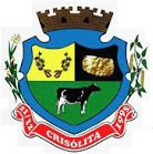 Coat of arms of the city of Crisólita, Minas Gerais, Brazil.